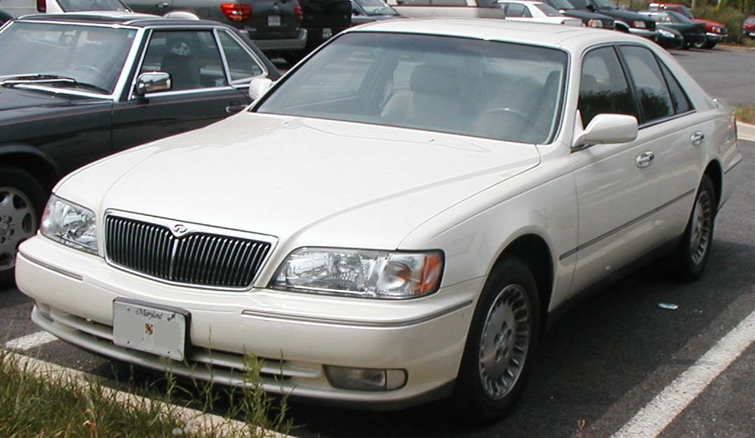 1997-2001 Infiniti Q45 photographed in USA.